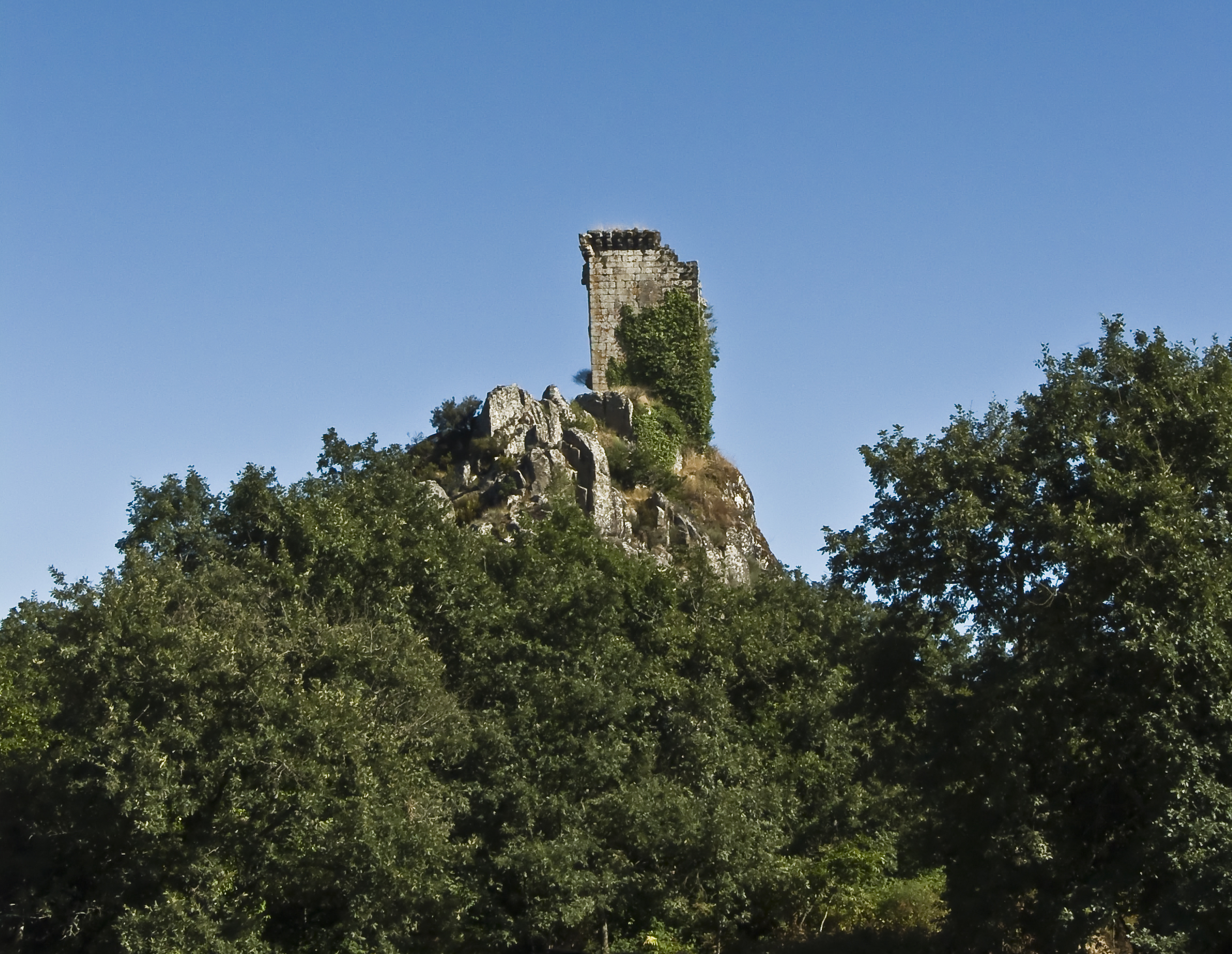 Sande tower - Ourense - Galiza - Spain